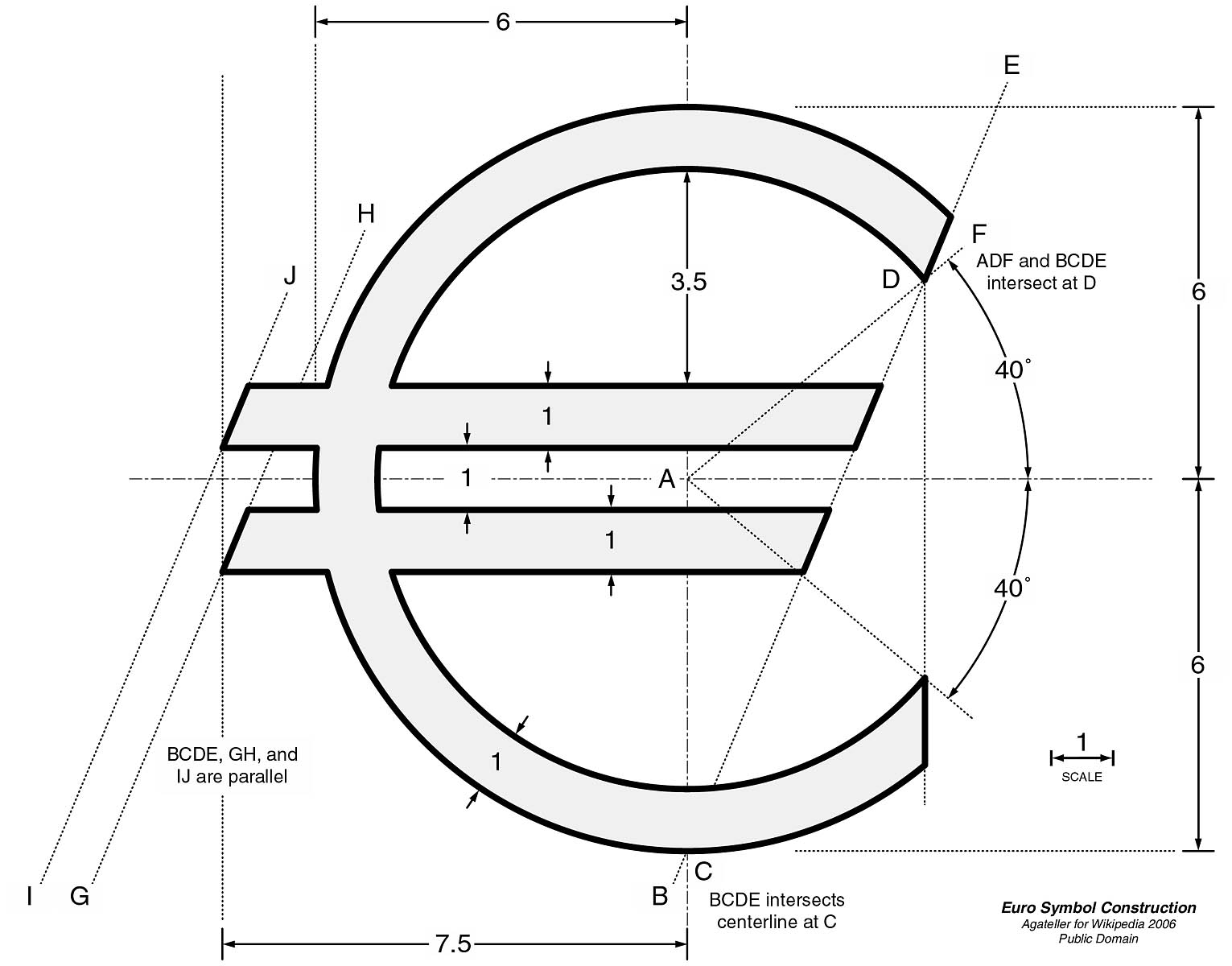 Diagram showing the official proportions of the euro symbol.